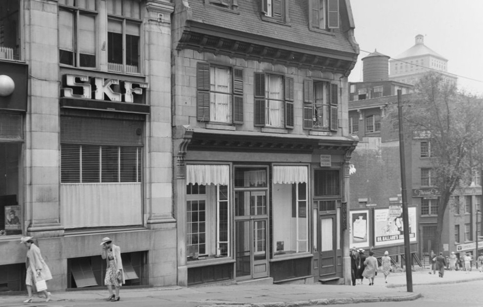 We see the front of the Red Cross restaurant in Montreal located at 1067 Lagauchetière Street in Montreal.